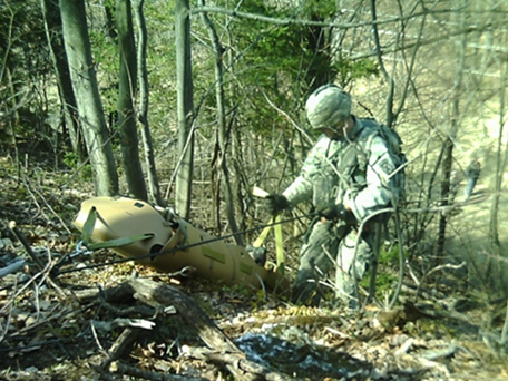 U.S. Army Mountain Warfare School, Basic Military Mountaineer Course, high-angle casualty evacuation training